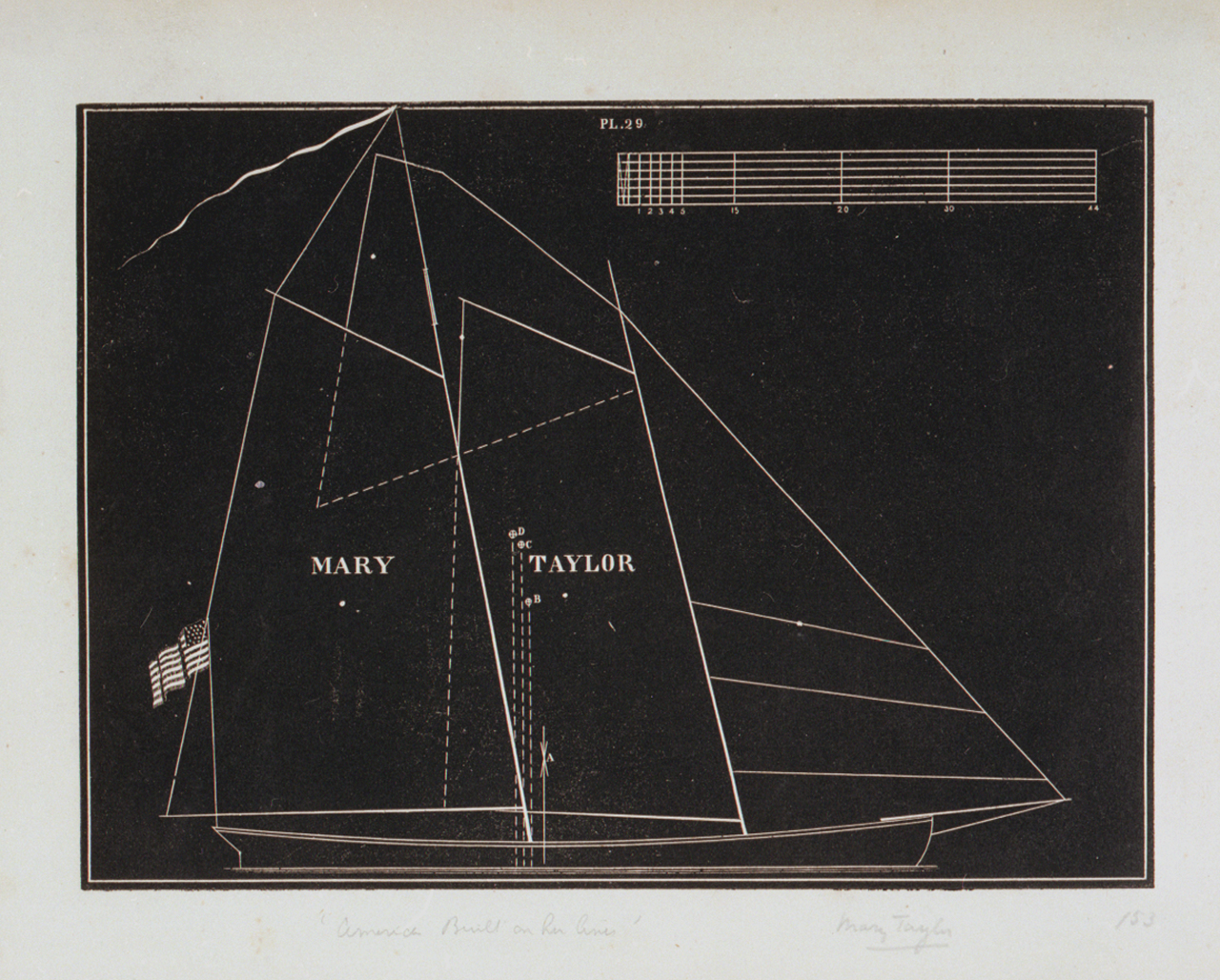 America Built on her lines Mary Taylor (Plan) Plate 29.